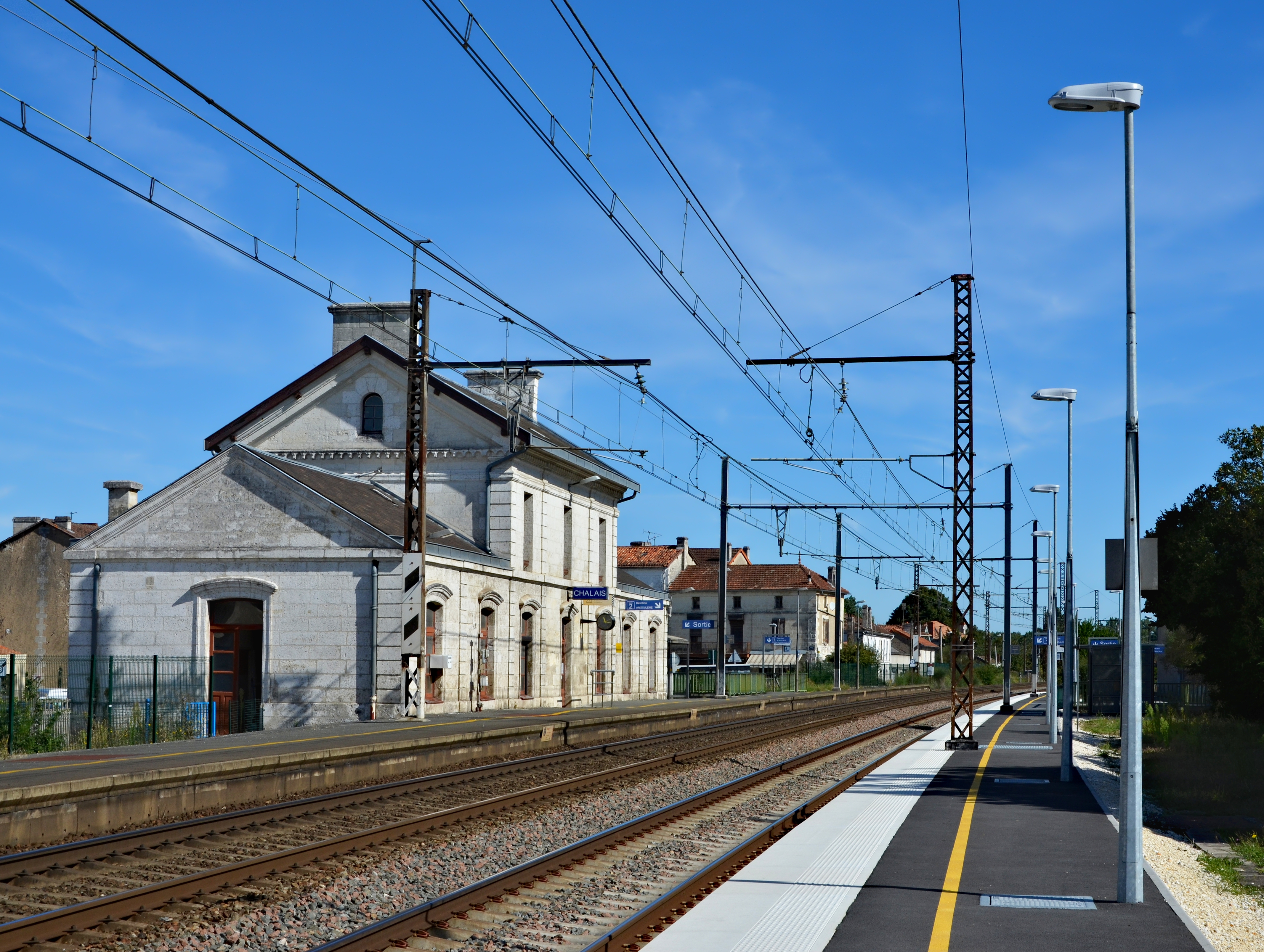 Railway station of Chalais, on Paris-Bordeaux line. Chalais Charente, France.